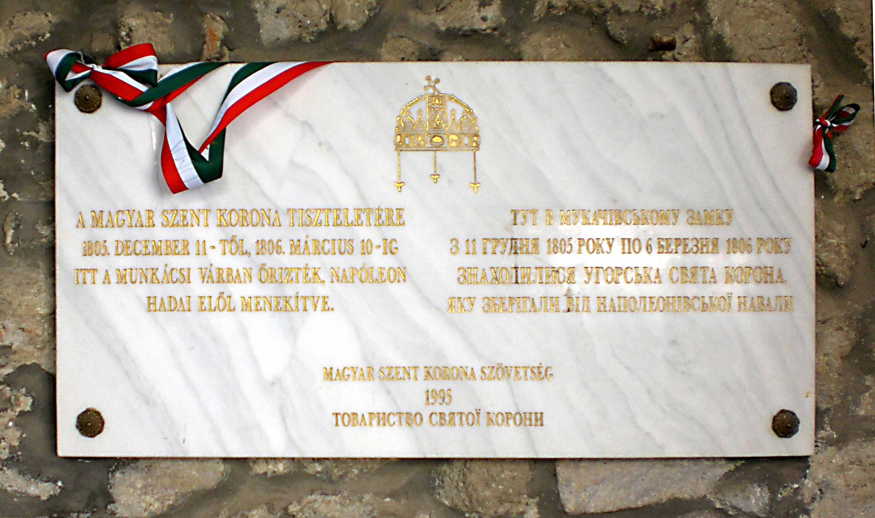 Plaque at Mukachevo Castle Ukraine, commemorating the location there of St. Stephen's Crown, (the Hungarian Crown) during the Napoleonic wars in 1805-1806